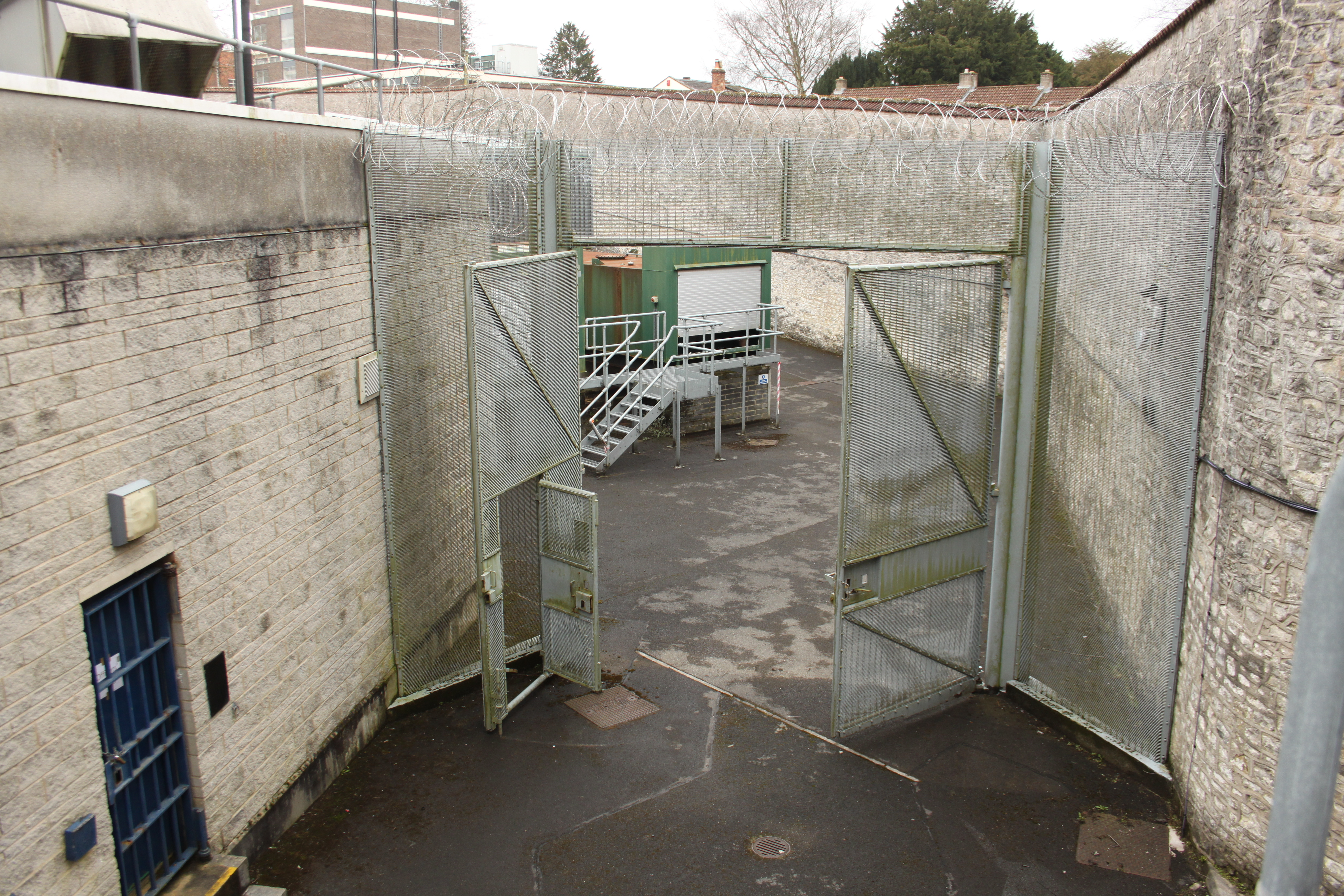 Photos of HMP Shepton Mallet taken March 2018